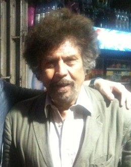 Posted via web from Daidaros's posterous